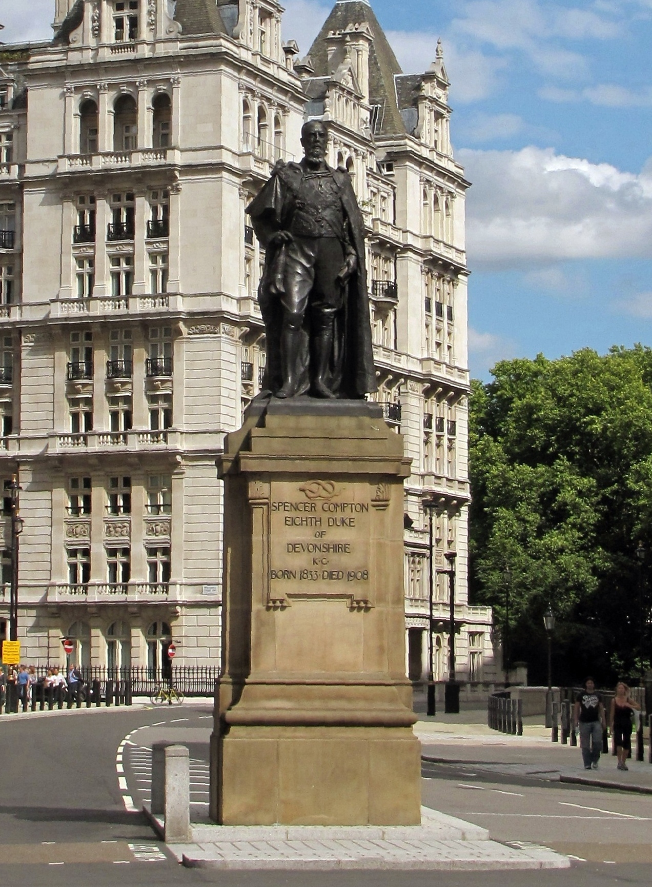 Statue of the Duke of Devonshire in Whitehall / Памятник Герцогу Девонширскому.